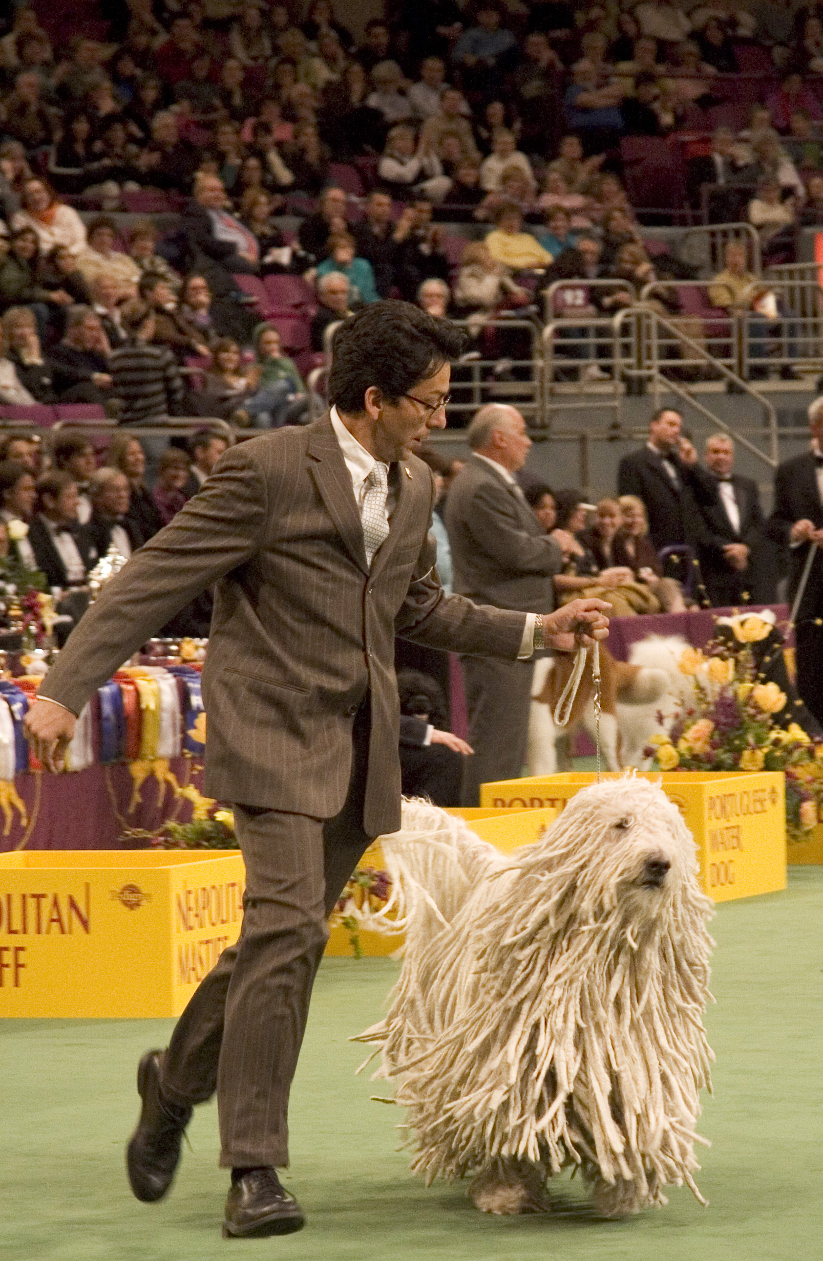 BIS BISS Ch. Gillian's Quintessential Quincy (born April 17, 2000), a male Komondor at the Working Group judging in the 2007 Westminster Kennel Club Dog Show. "Quincy" is owned by Janet Cupolo and John D Landis, bred by Barbara A. Artim and John D Landis, and handled by Ernesto Lara (pictured).